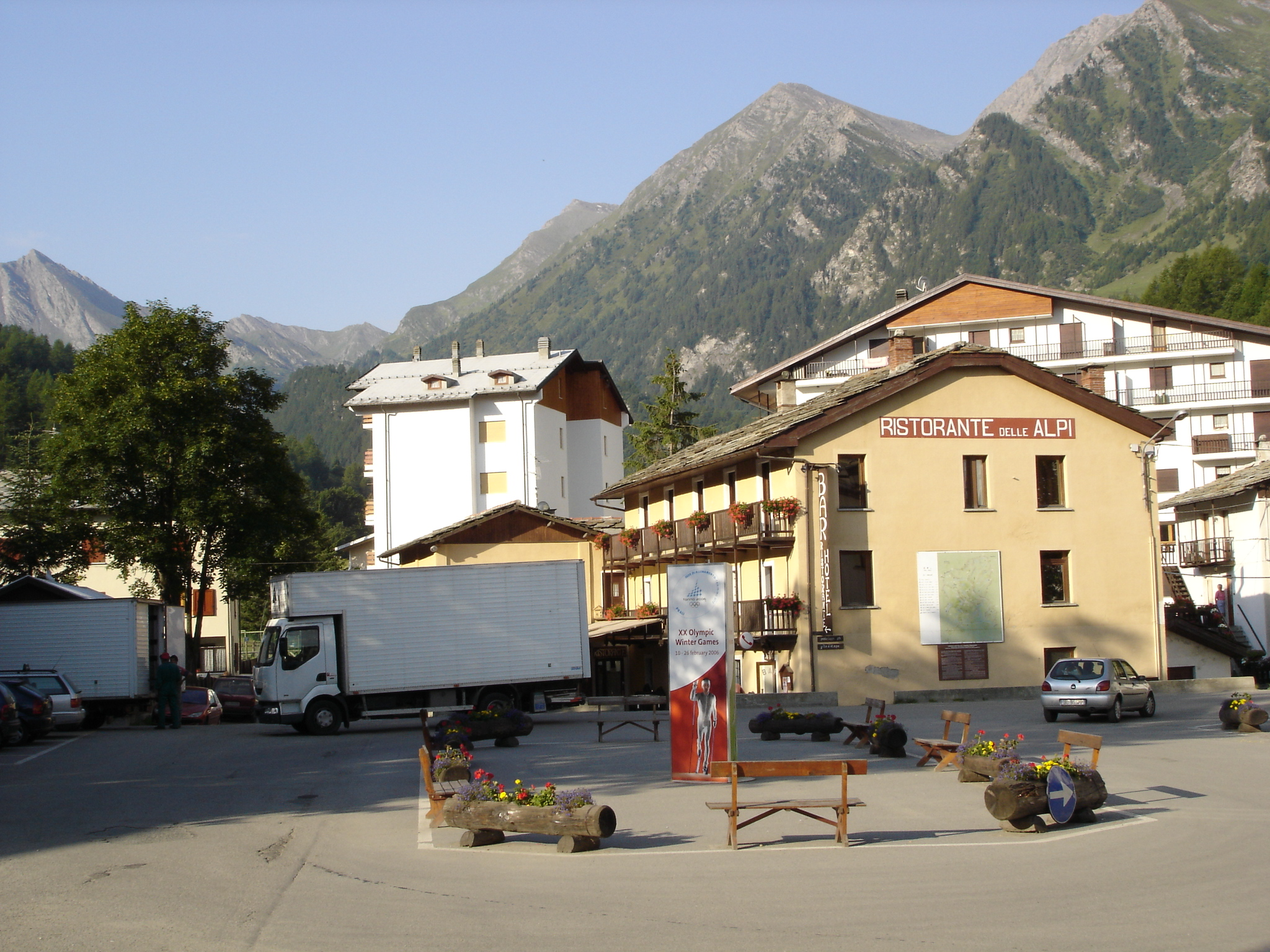 The center of Ghigo, commune of Prali, province of Turin